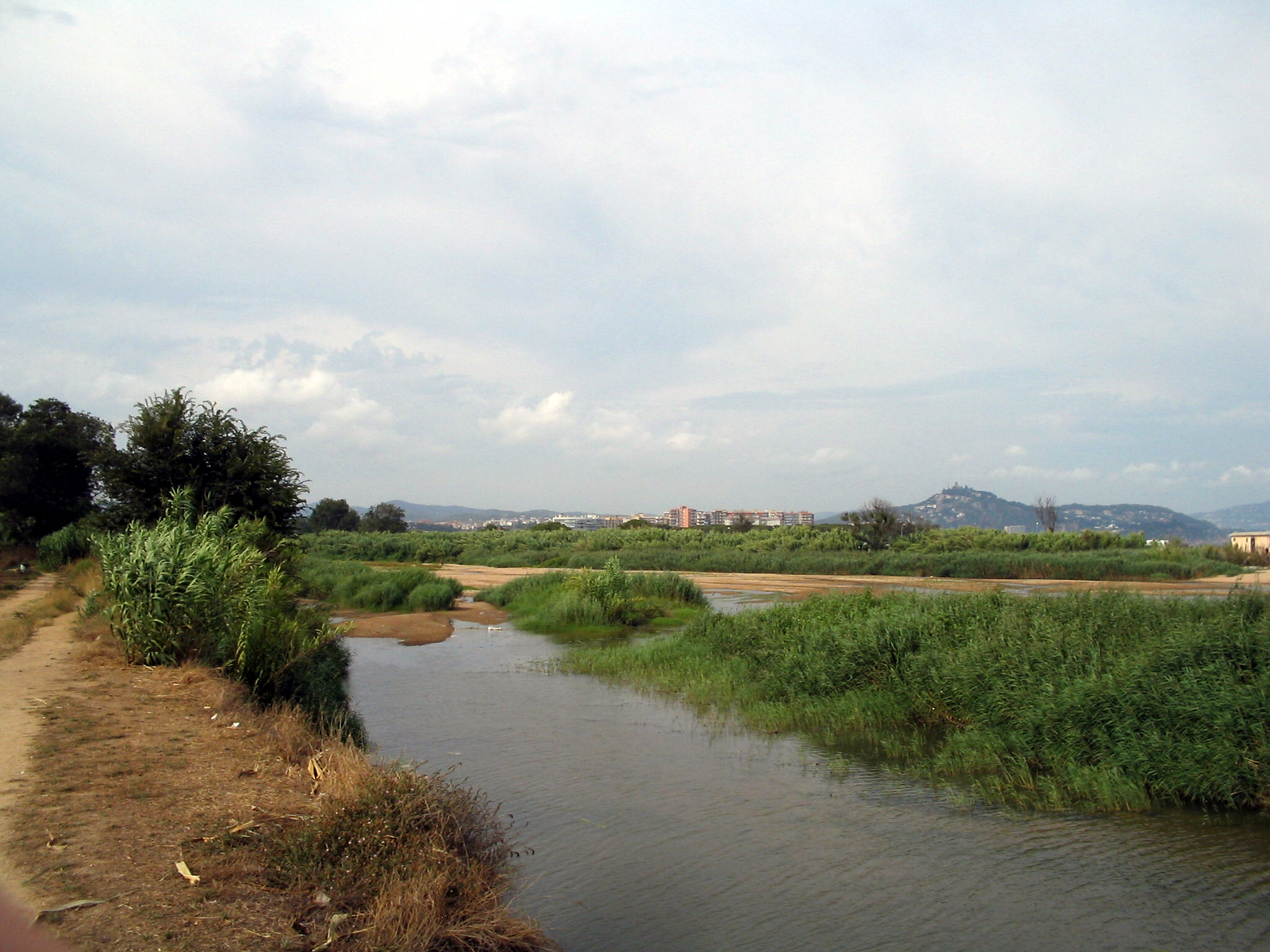 Mouth of the river Tordera (Catalonia, Spain)